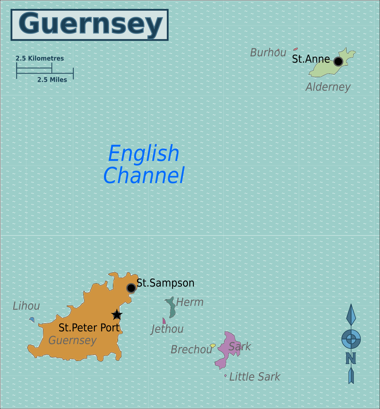 Map for Wikivoyage's Guernsey article.